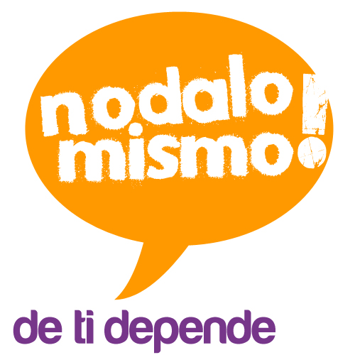 Logo del proyecto No da lo mismo PUCV